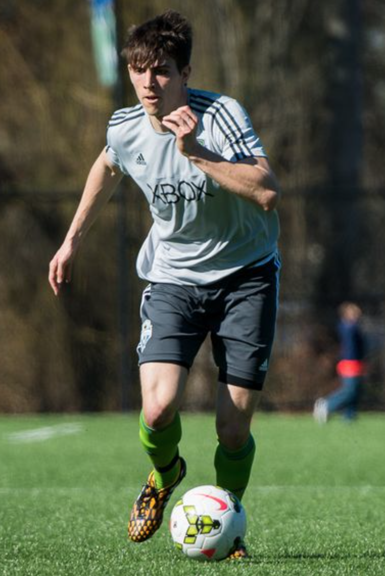 Photo of Jonny Campbell (soccer)